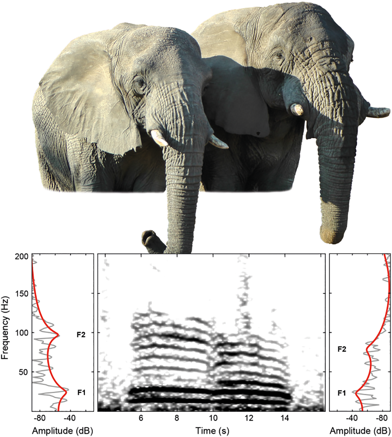 Comparison of spectrograms of a female (left) and a male (right) African elephant. The spectrogram and power spectra below the photograph provide an example of a social rumble of each sex, indicating formant positions (rumbles uttered first by the female, followed by the male).